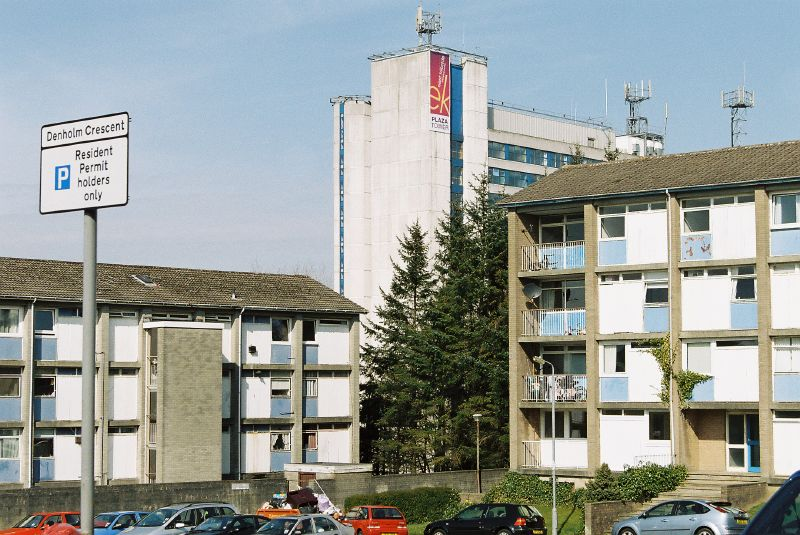 East Kilbride, Scotland